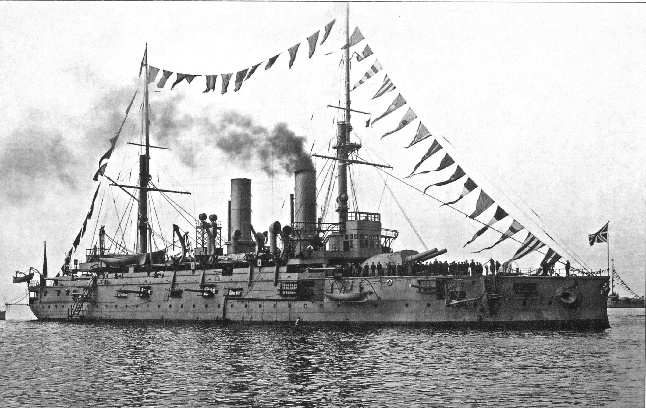 Imperial Russian fire-training ship Imperator Aleksandr II in Reval, 4 July 1913.